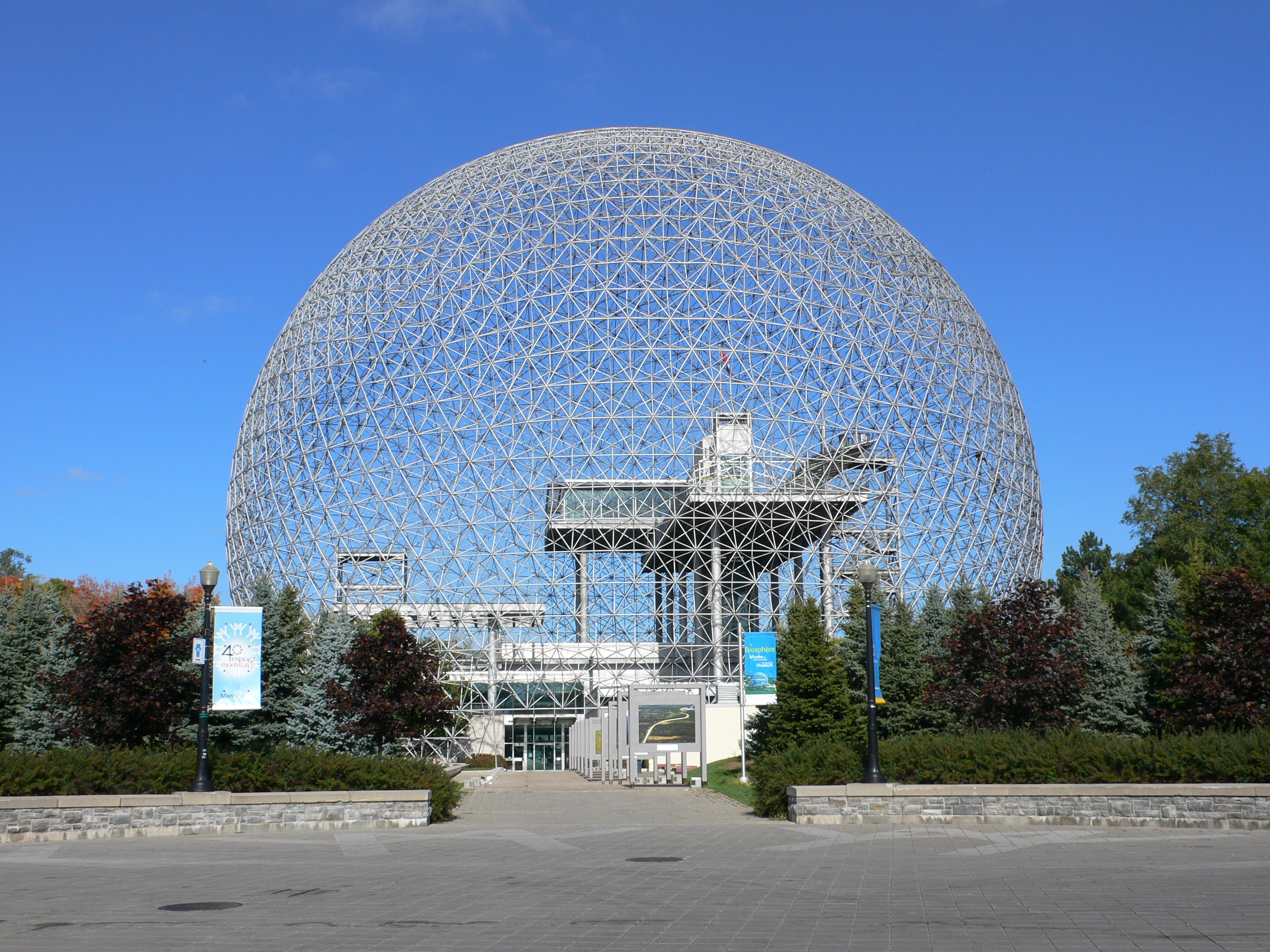 Montreal Biosphère in Montreal, Canada